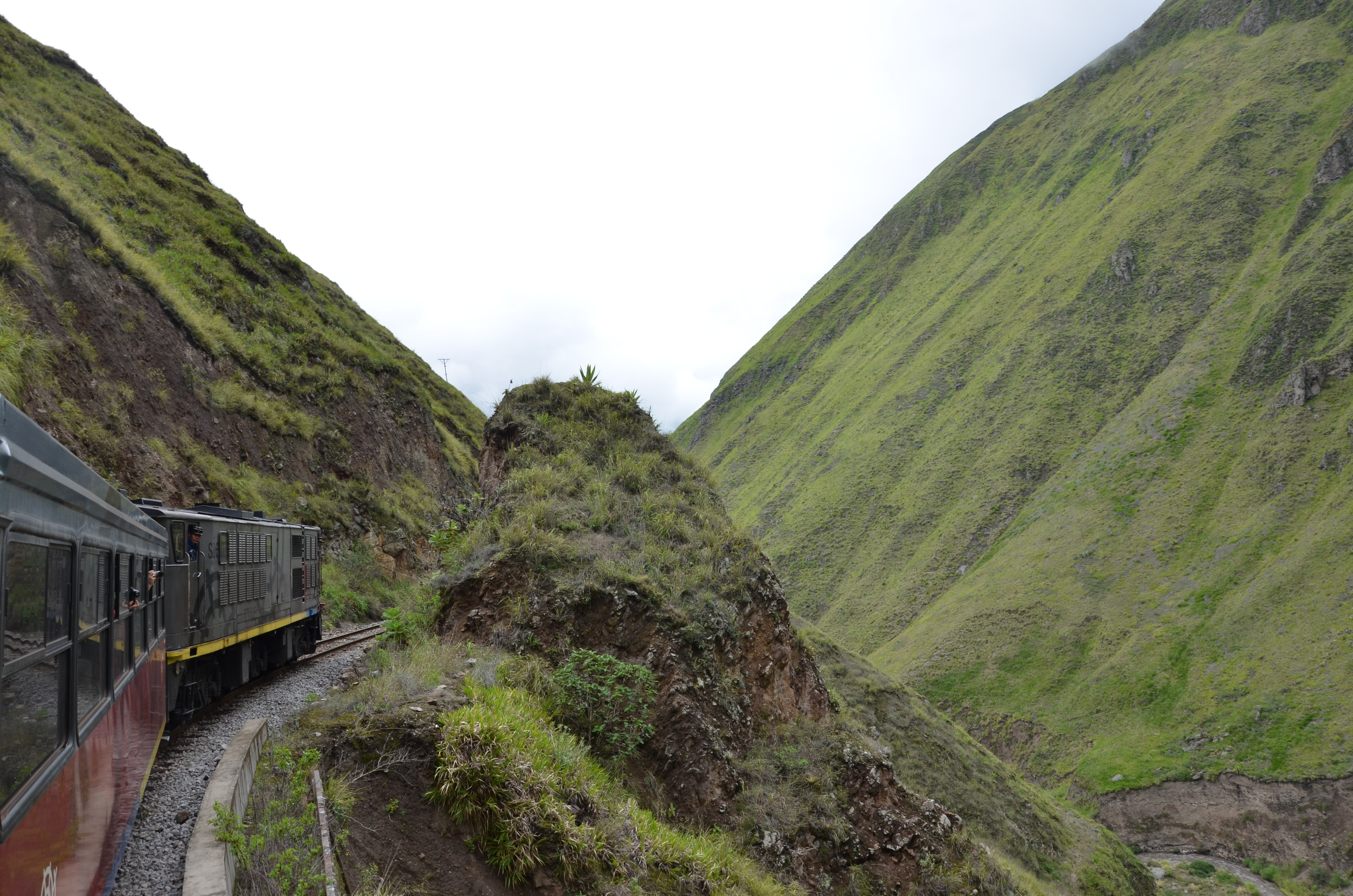 maravillosa experiencia turística en el Tren recorrido Nariz del Diablo.